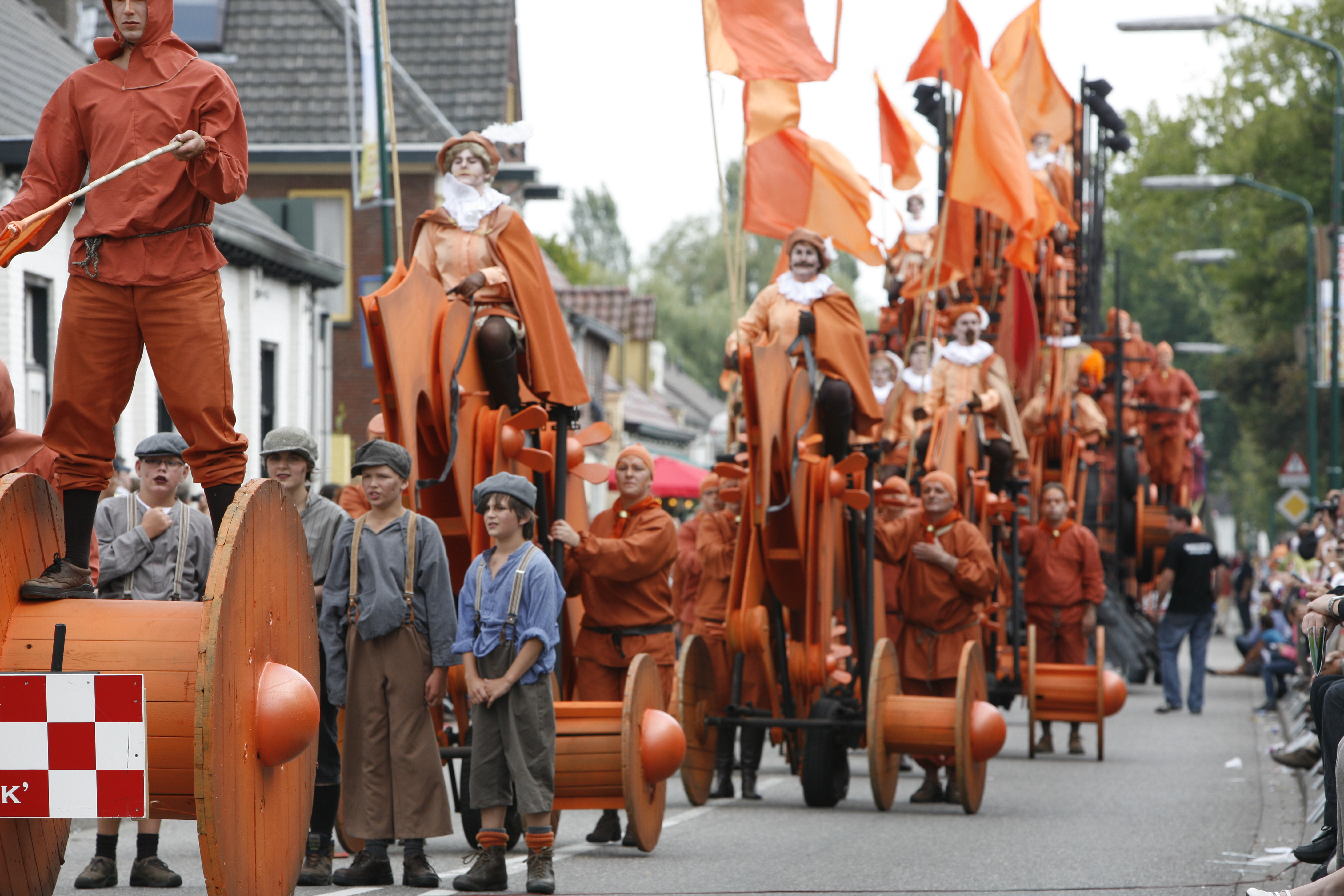 Brabantsedag 2009 - De Rooie Hoek